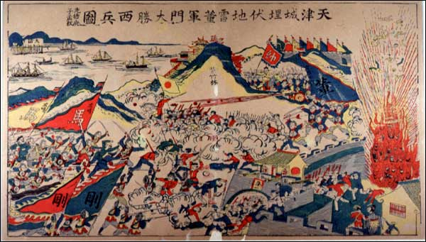 Nianhua print: Dong Fuxiang's victory. Dong Fuxiang's great victory over the Western troops. In another version of the attack on Tianjin, Dong Fuxiang is credited with victory. Bodies and limbs are hurled skywards in explosions, and foreign troops in flat caps retreat before the turban-wearing Boxers. At the bottom, a Japanese lady is helped to safety. The relationship between Boxers and Chinese imperial troops was confusing: some imperial generals continued to suppress them; others, like Dong Fuxiang, openly supported the Boxers.